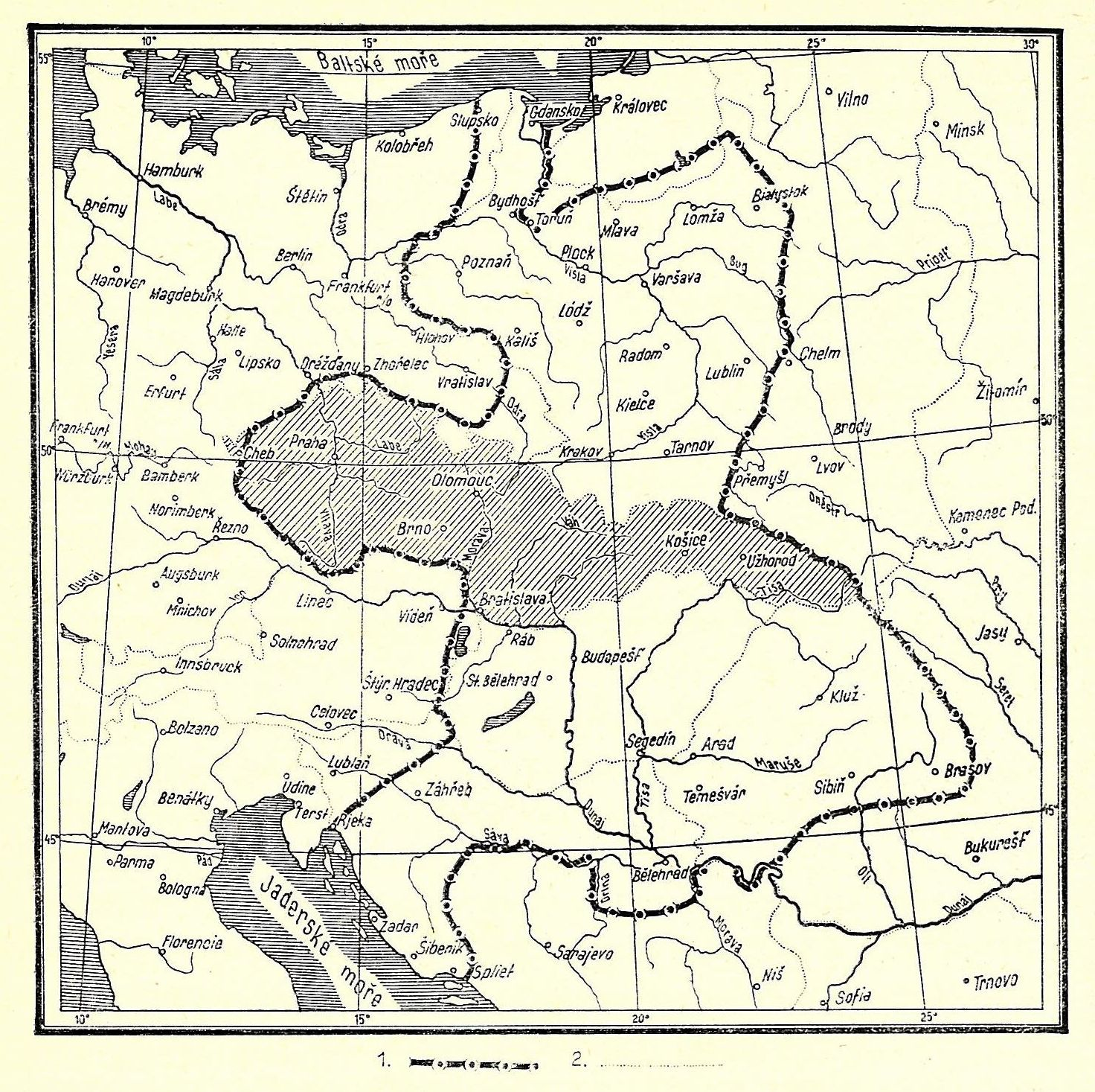 Map showing the largest territorial extension of the power of the Bohemian kings at the turn of the 14th century. (1. borders of the empire of the Přemyslids, 2. existing borders of states in 1937.)